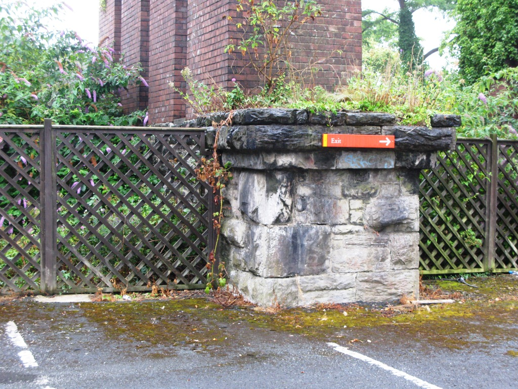 A pier of the disusued Stonehouse Pool Viaduct in Plymouth, Devon, England. A dwarf stone pier was built to support a timber superstructure thatw as opened for traffic in 1859. About fifty years later this was replaced by a metal girder viaduct, to carry which the piers were built up in brick.